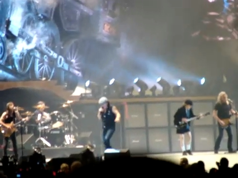 AC/DC at the Dome in Tacoma, Washington on November 30, 2008. Members from left to right: Malcolm Young, Phil Rudd, Brian Johnson, Angus Young, and Cliff Williams.